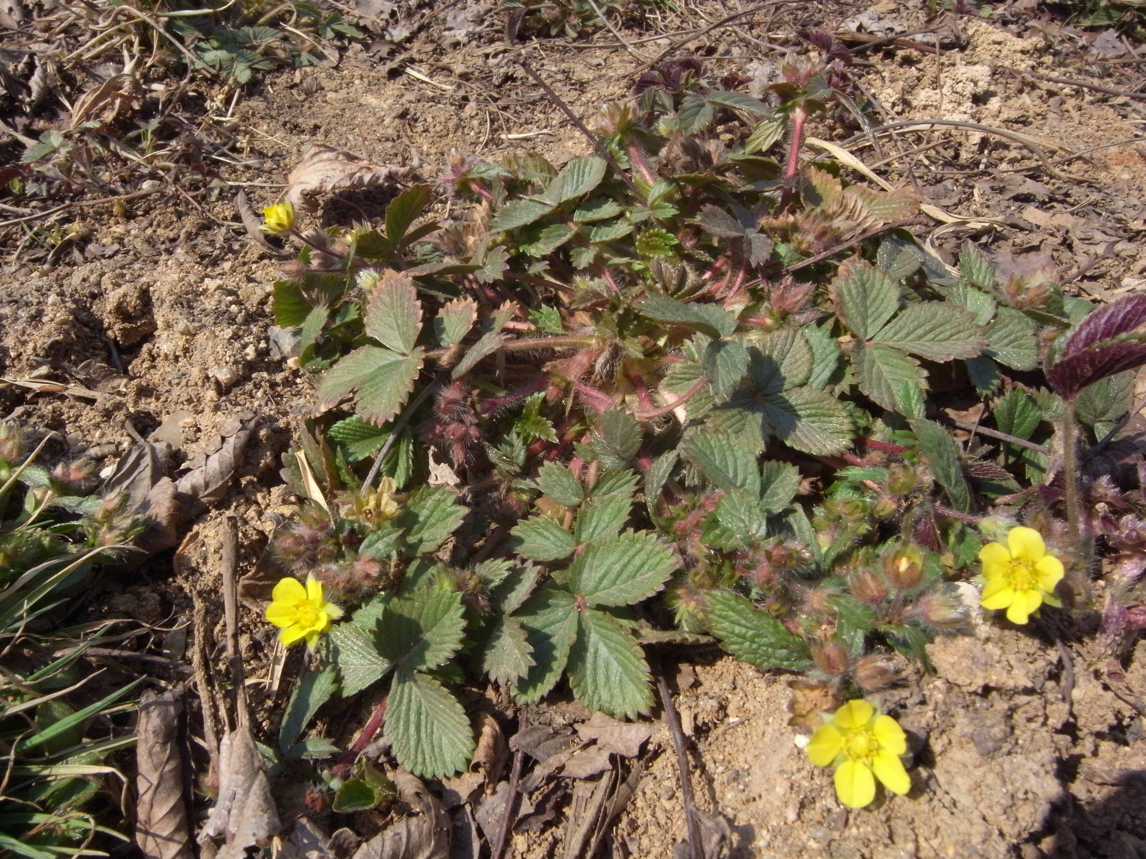 Potentilla fragarioides var. major